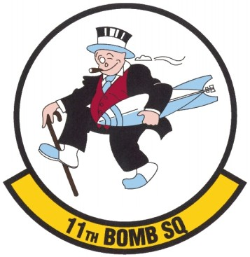 11th Bomb Squadron Patch